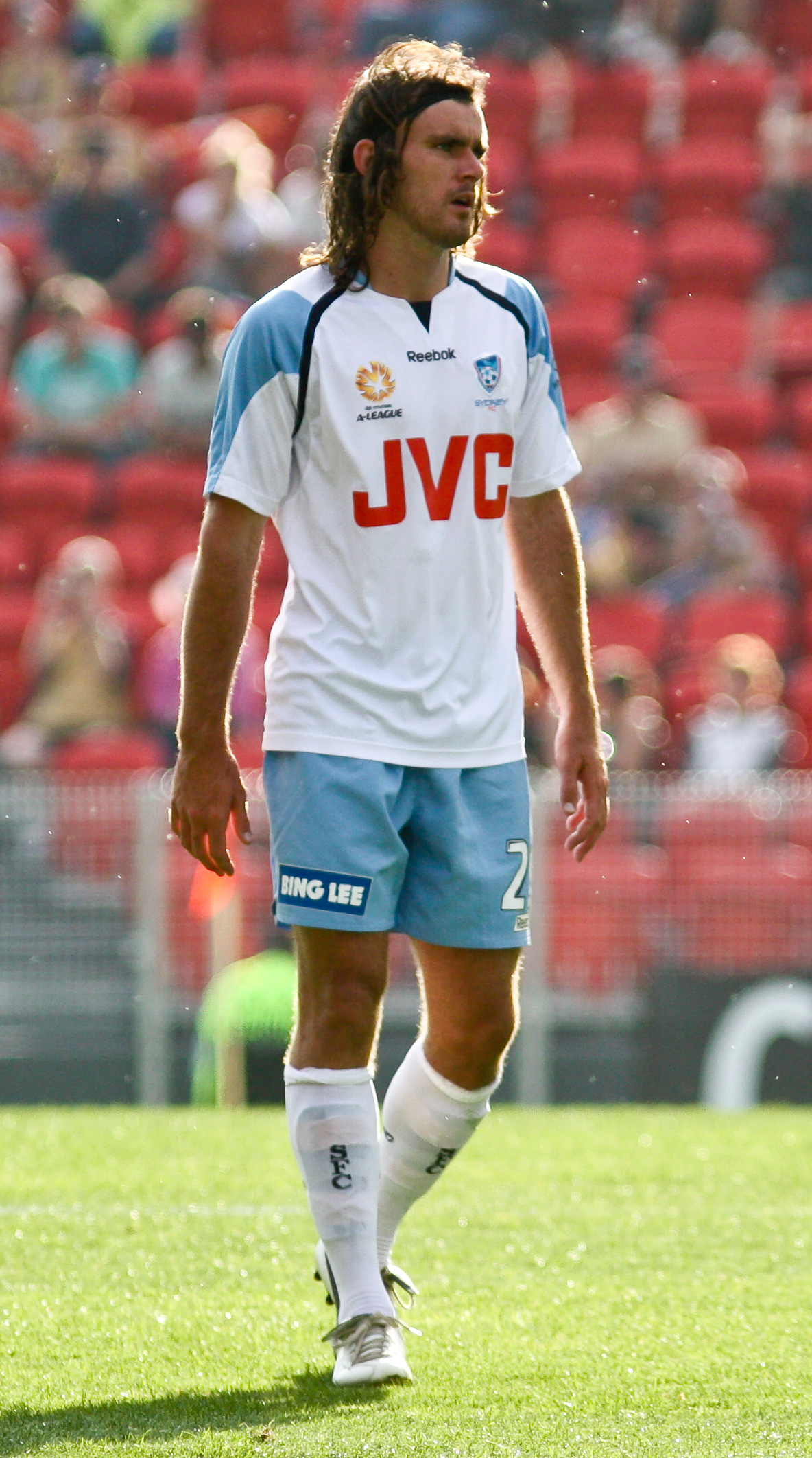 Beau Busch playing for Sydney FC agains the Newcastle Jets in the 08/09 A-League.